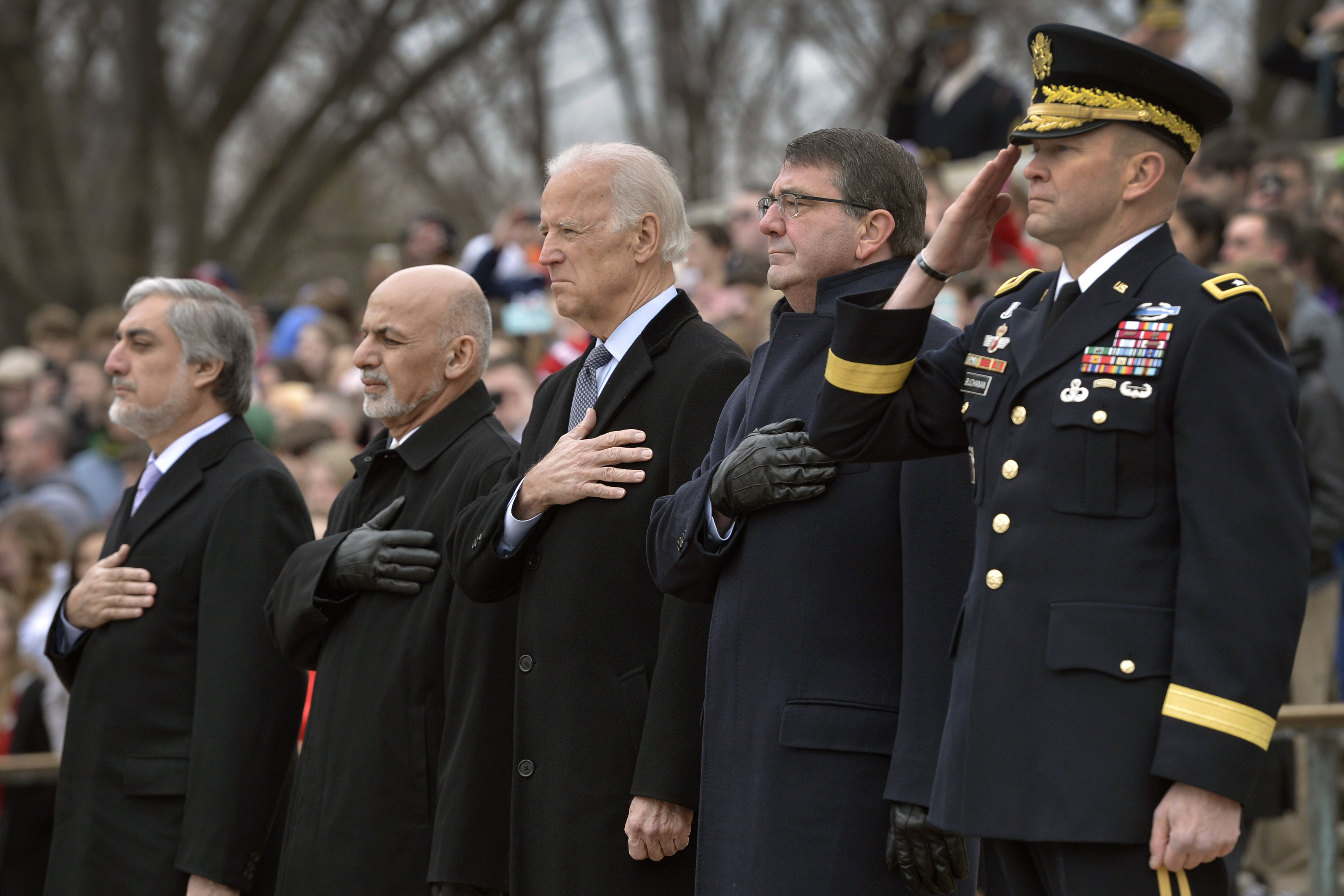 U.S. Defense Secretary Ash Carter, second from right, with, from left, Afghan Chief Executive Abdullah Abdullah, Afghan President Ashraf Ghani and Vice President Joe Biden participate in a wreath-laying ceremony at the Tomb of the Unknown Soldier at Arlington National Cemetery in Arlington, Va., March 24, 2015.